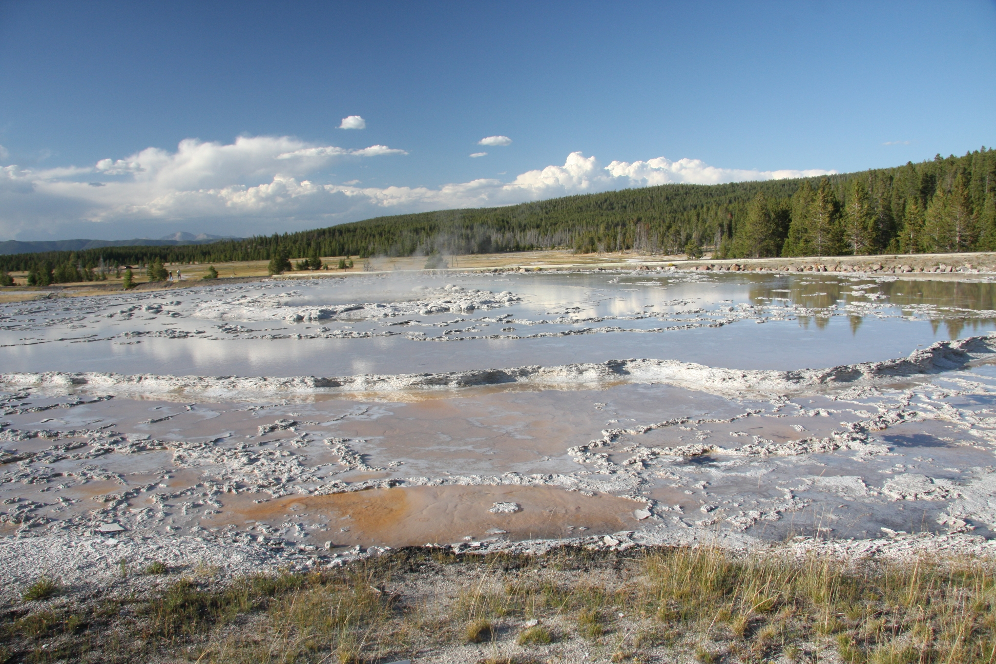 View on Fountain Paint Pots, Yellowstone National Park, Wyoming